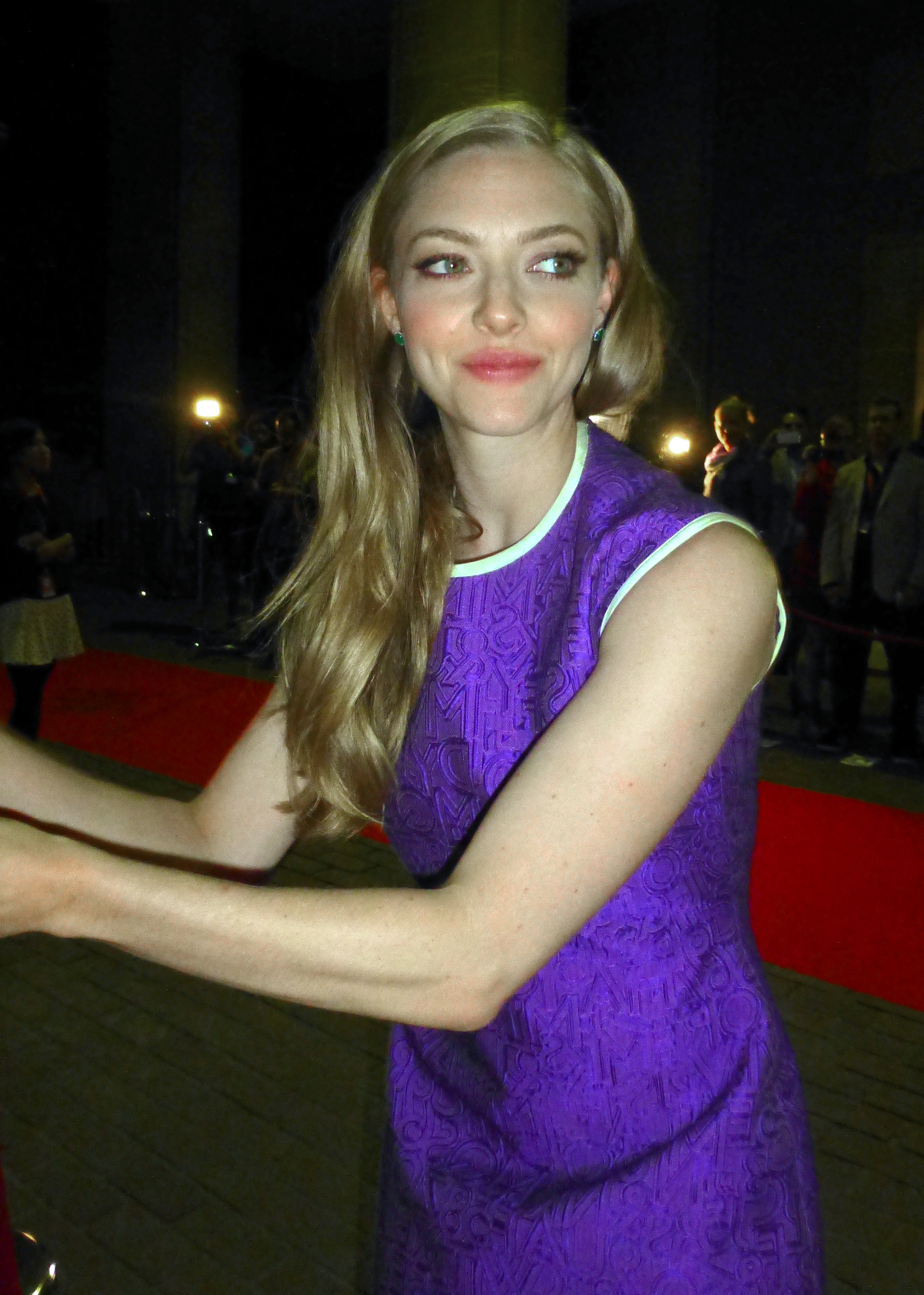 Amanda Seyfried at the premiere of Tusk, 2014 Toronto Film Festival